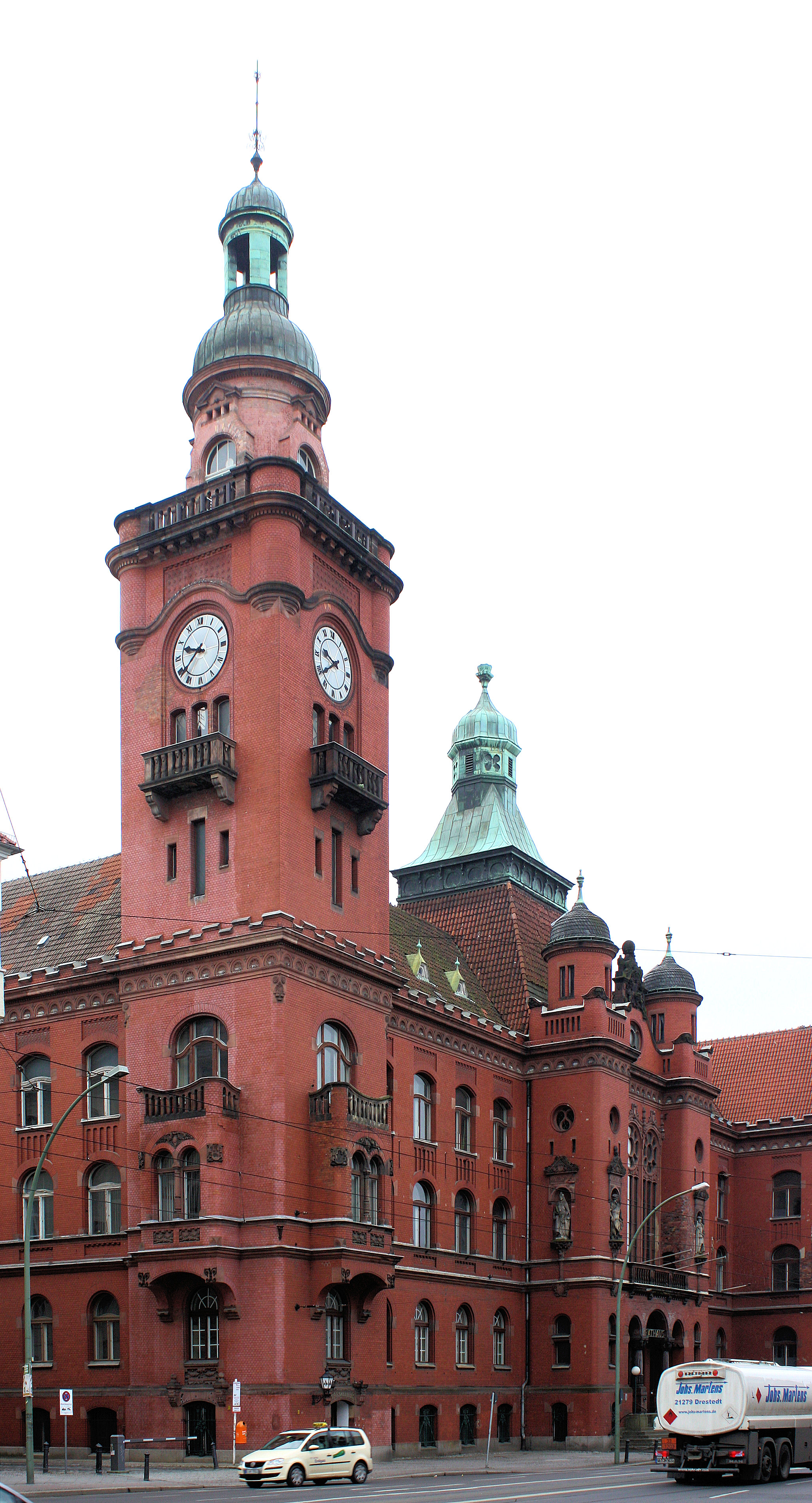 Berlin-Pankow, the town hall